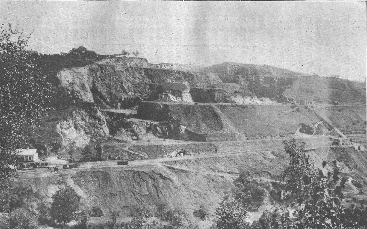 opencast iron ore mine in Ghelari (Gyalár; 1896)